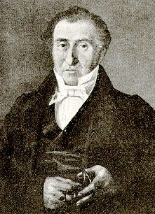 Hartvig Philip Rée c 1912